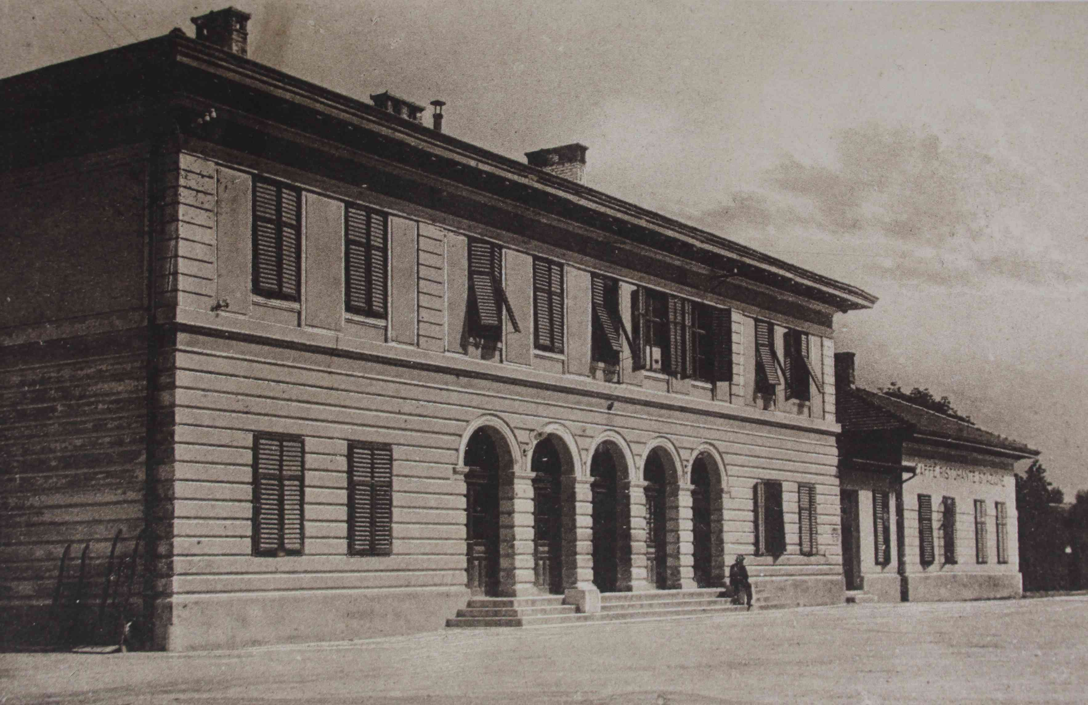 Former railway station in Riva del Garda (1891)